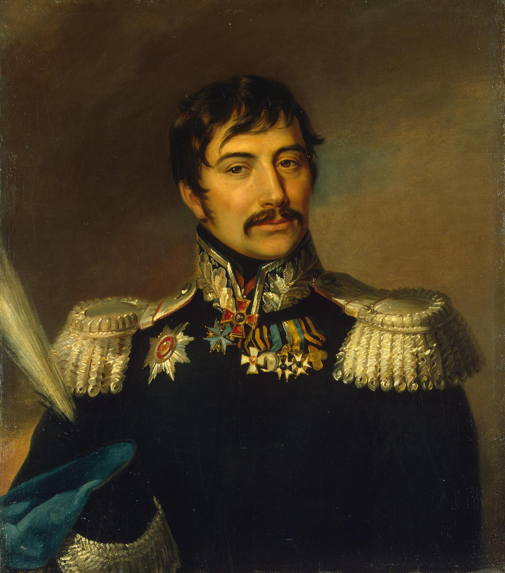 Grekov, Timofey Dmitriyevich 18-th (1770 – 20.08.1831) russian major general.